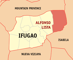 Map of Ifugao showing the location of Alfonso Lista